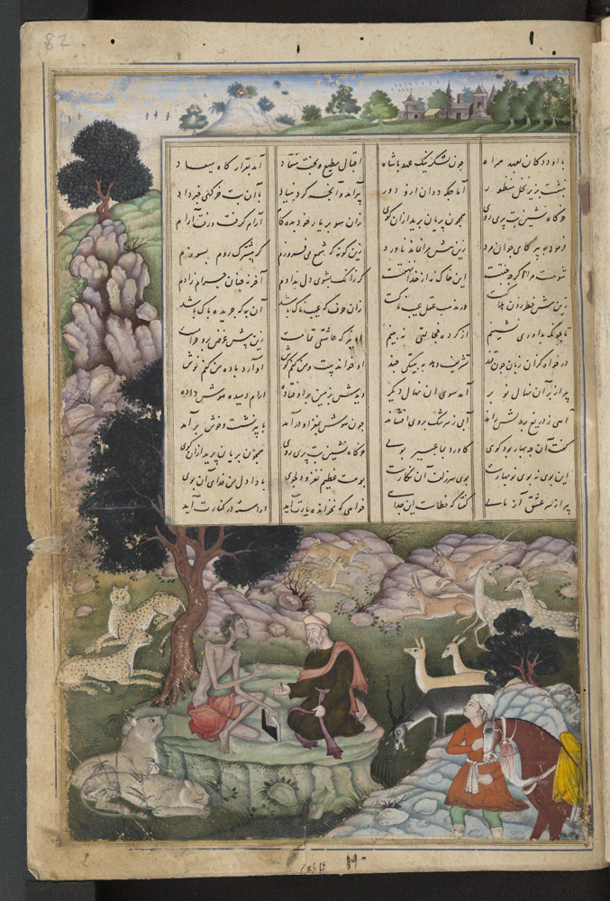 Salīm conversing with Majnūn in the desert. Illustration of the story of Layla and Majnun, by Nizami. Persian text with painting in Mughal style. Book originally from India but acquired by the Bodleian Library in 1953. Shelfmark MS. Pers. d.102